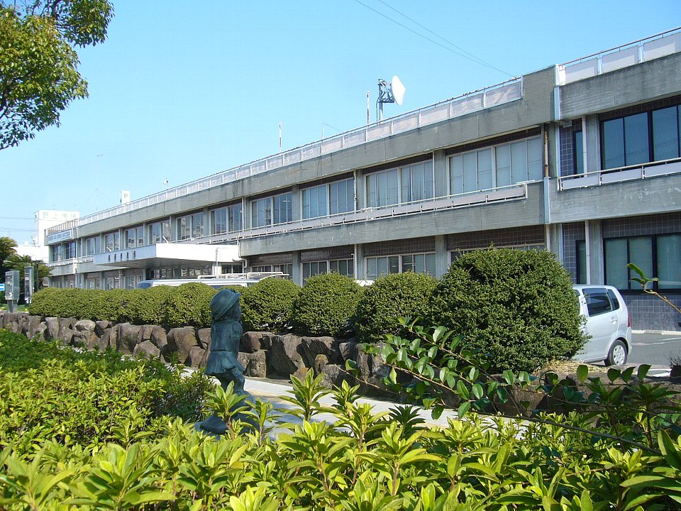 Sennan, Osaka city office